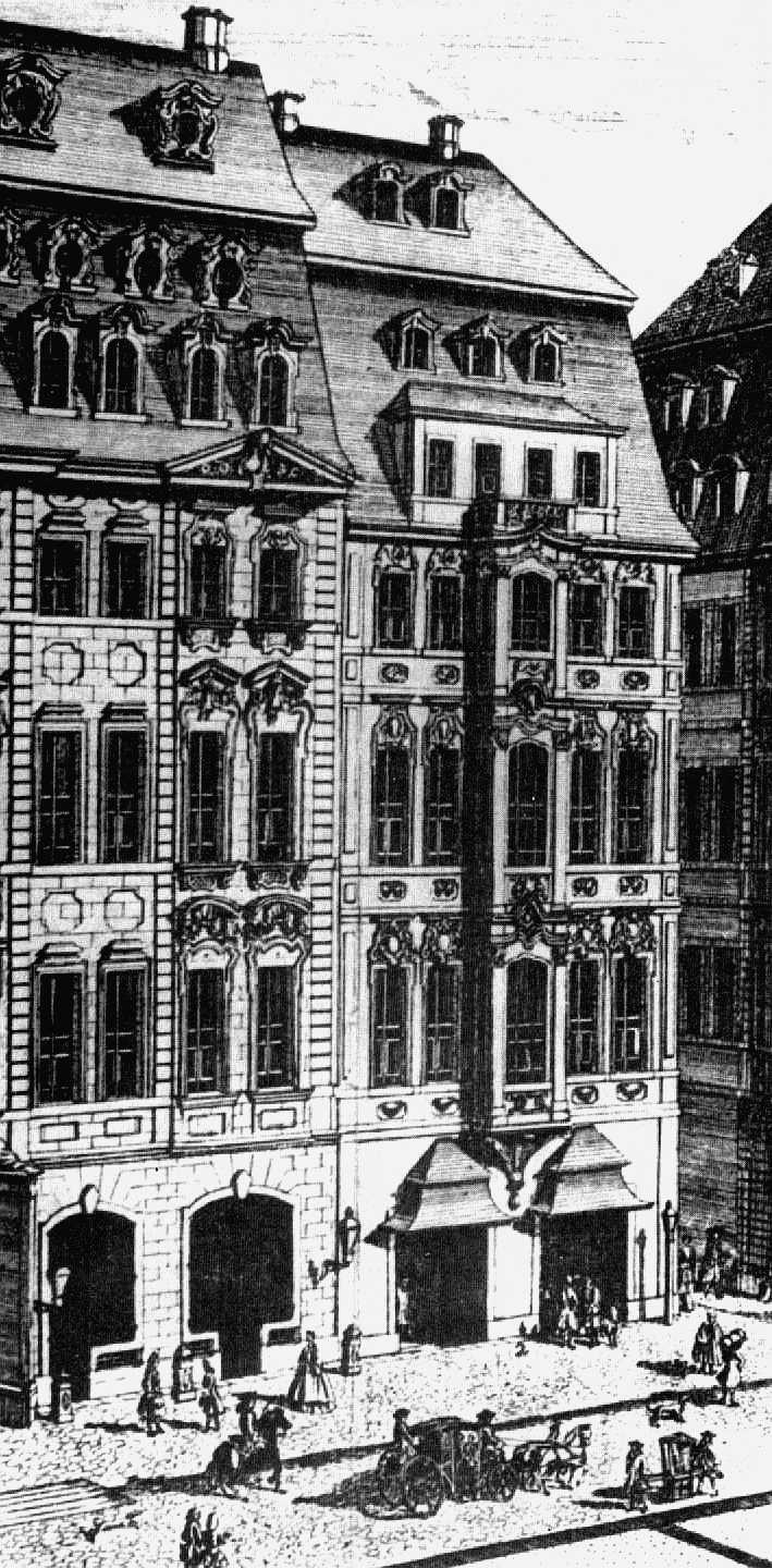 Zimmermann's Coffee-House, Leipzig.Important in Johann Sebastian Bach's life as meeting-place of his Collegium Musicum since 1729